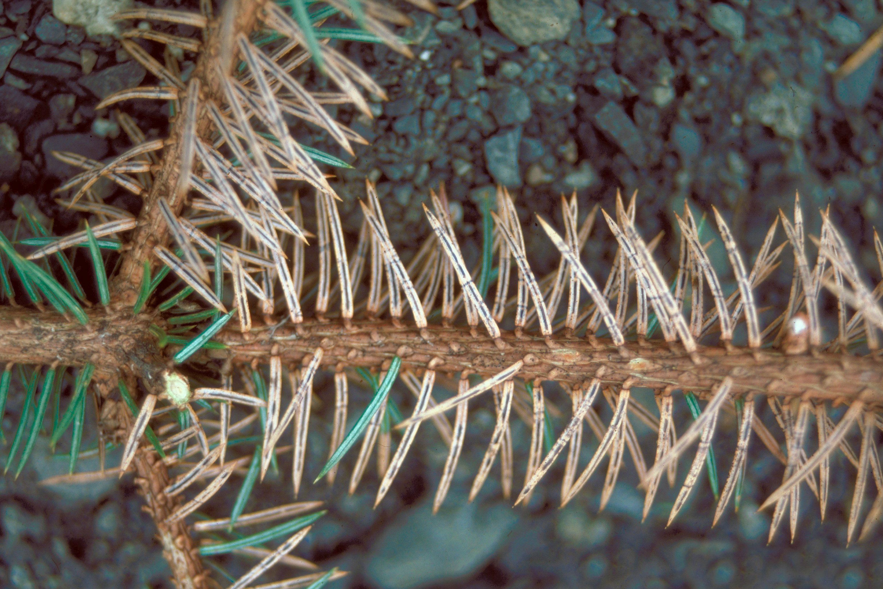 Spruce needle cast/blight Lirula macrospora (R.Hartig) Darker. Host: Sitka Spruce Picea sitchensis (Bong.) Carr. Descriptor: Fruiting bodies. Description: long black fruiting bodies.